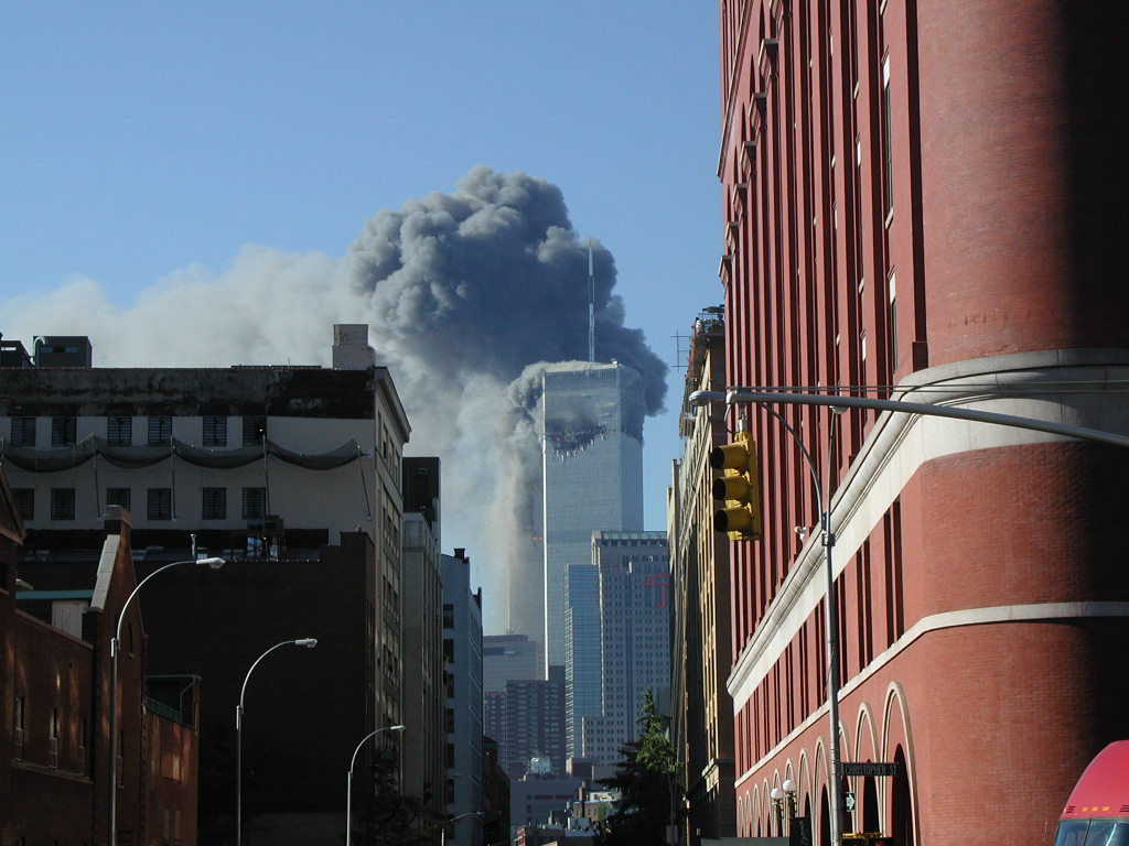 September 11 attacks. The Twin Towers from Greenwich Street after United Airlines Flight 175 crashed into WTC2.